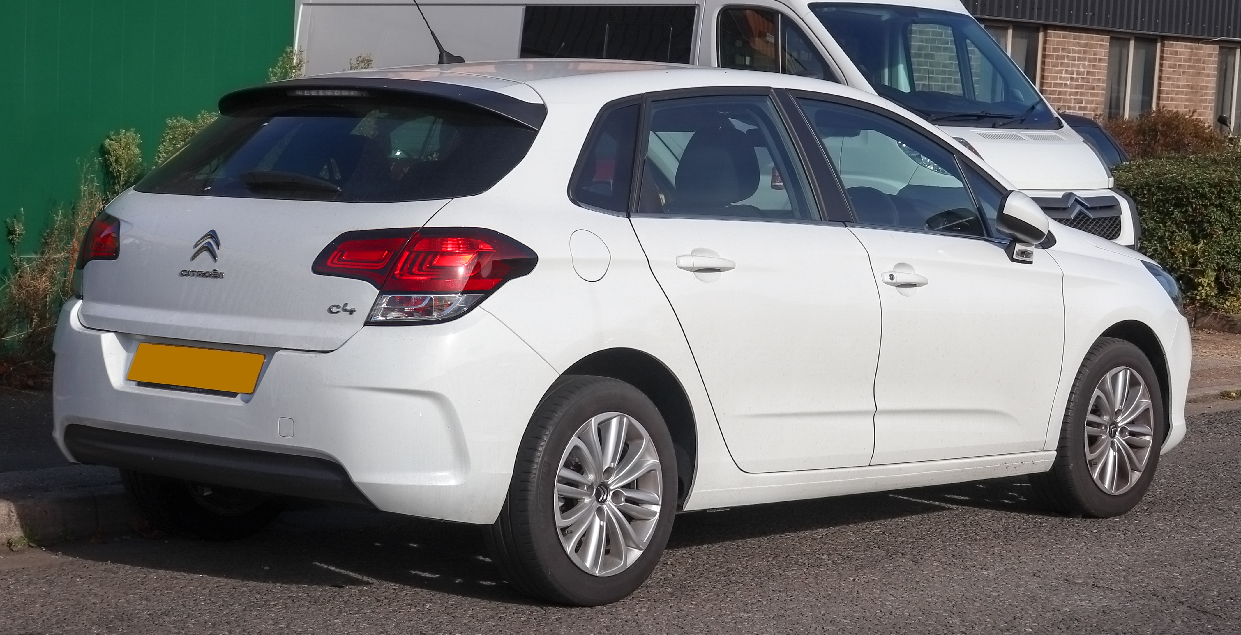 2016 Citroen C4 Feel BlueHDi 1.6 Rear Taken in Leamington Spa